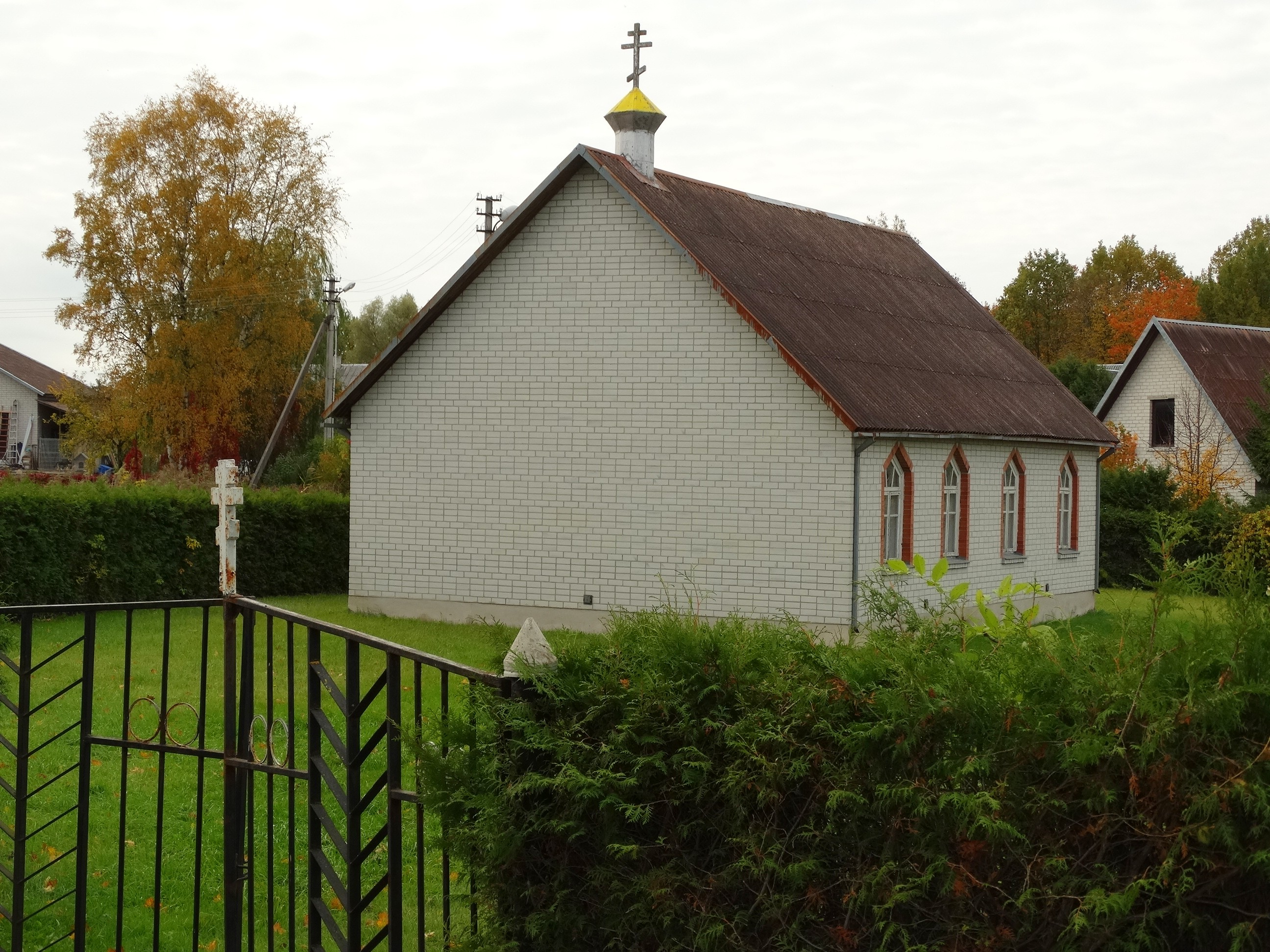 Orthodox Church of Old Believers in Lazdijai, Lithuania